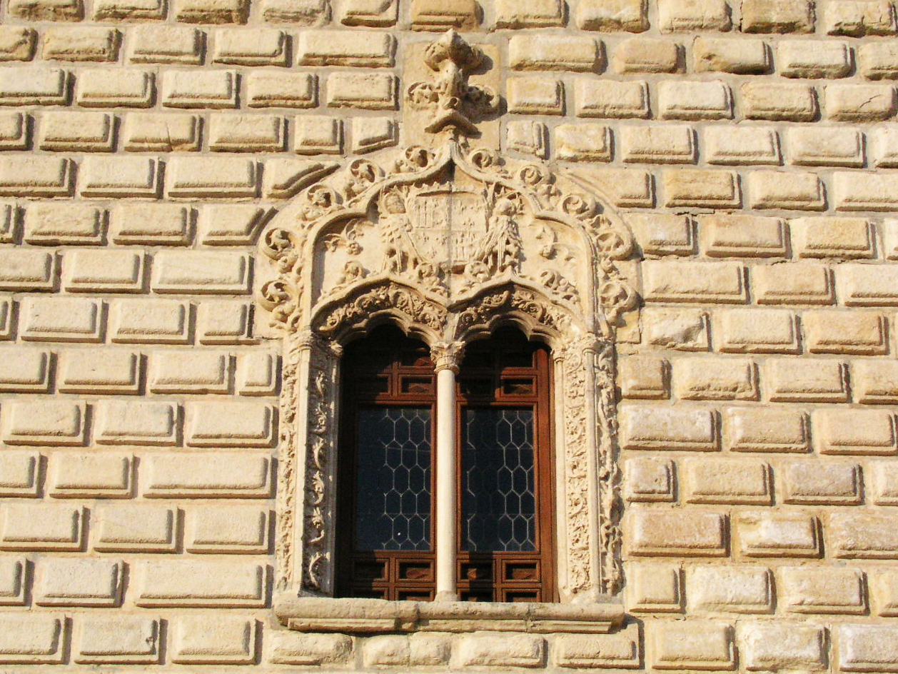 Cogolludo, provincia de Guadalajara, España. Palacio de Duques de Medinaceli. The photo was taken the 8th of April in 2004 by Håkan Svensson (Xauxa).